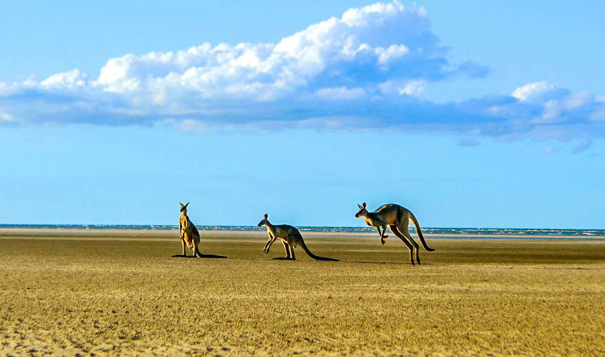 Kangaroos on the beach great sandy strait